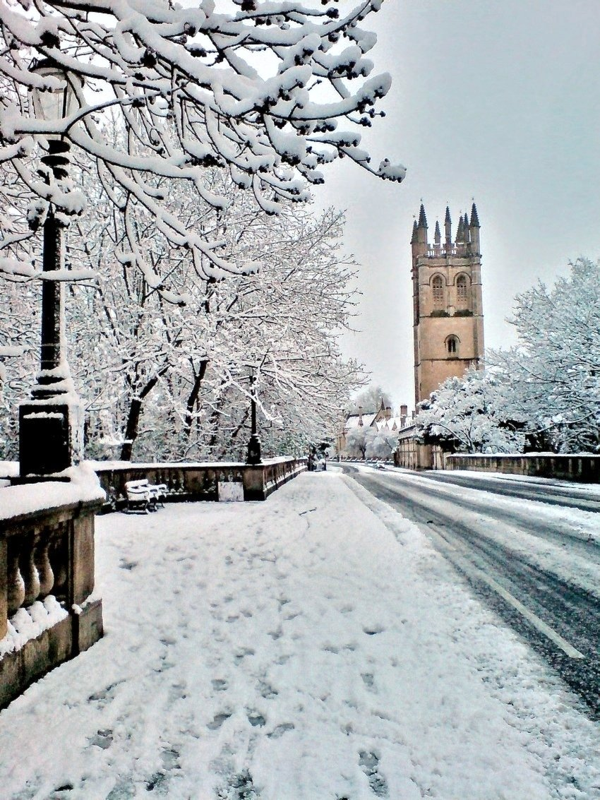 T-shirts in February? The British weather can be so unpredictable. Within a few hours the snow was rapidly thawing. Taken near Magdalen College, Oxford, England.